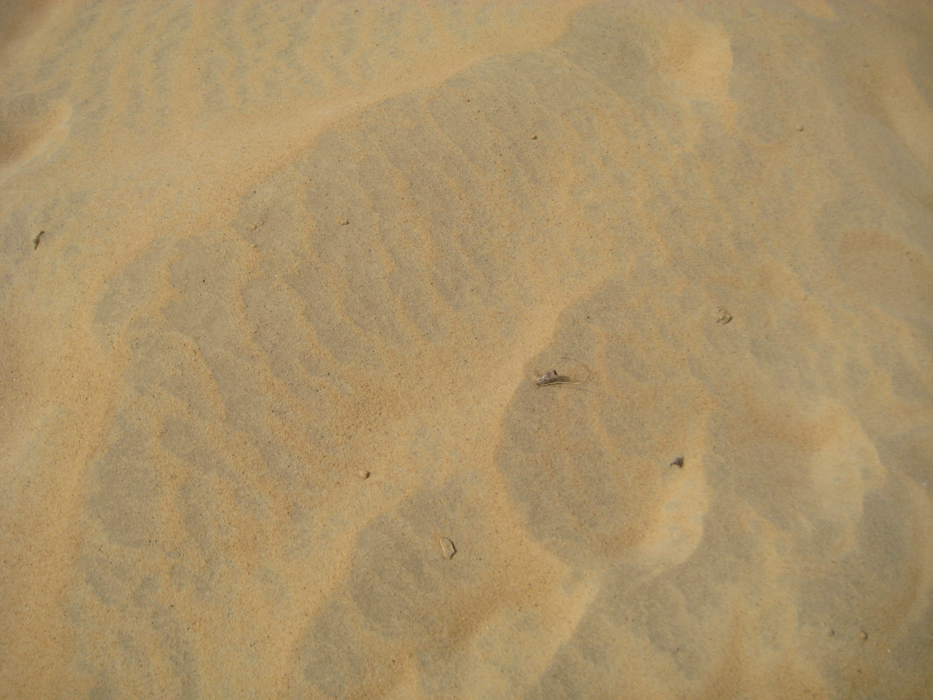 Desert Sand